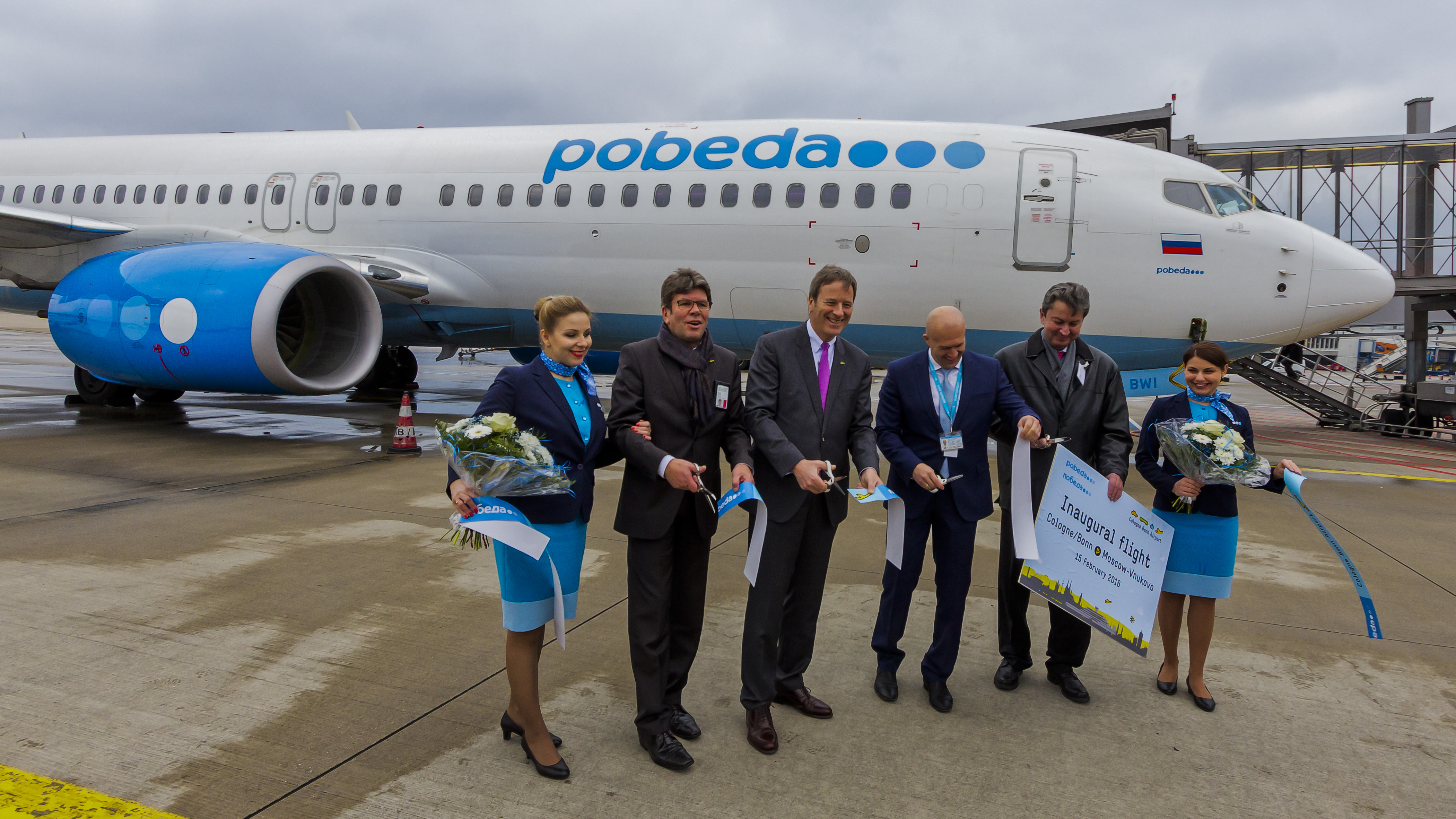 Inaugural flight Pobeda DP820 - Cologne/Bonn - Moscow-Vnukovo 2016 Image: Flight attendant, Ulrich Stiller (marketing director Köln Bonn Airport), Michael Garvens (director Köln Bonn Airport), Andrey Kalmykov (CEO of Pobeda Airlines) und Vladimir V. Sedykh (Gconsul general of the Russian Federation in Bonn), Flight attendant